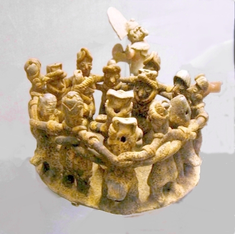 A ceramic scene, probably from Nayarit, loosely ascribed to the "Shaft tomb culture", 300 BC - AD 600. Height: 5.25 in; width: 8.5 in.